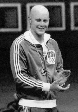 1976 Olympic Swimmers Mike Bruner & Steven Gregg & Billy Forrester Press Photo